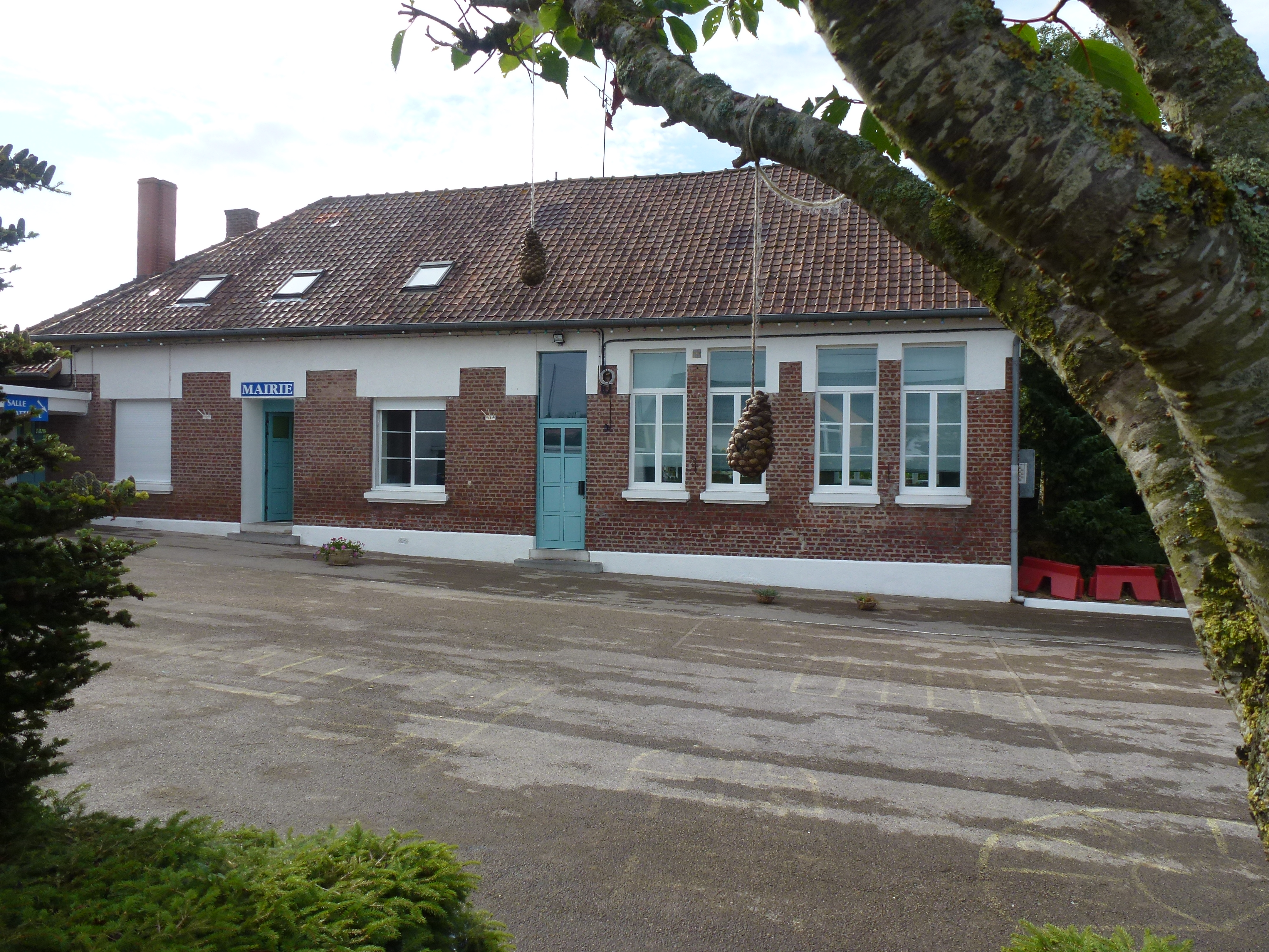 Rodelinghem (Pas-de-Calais) mairie